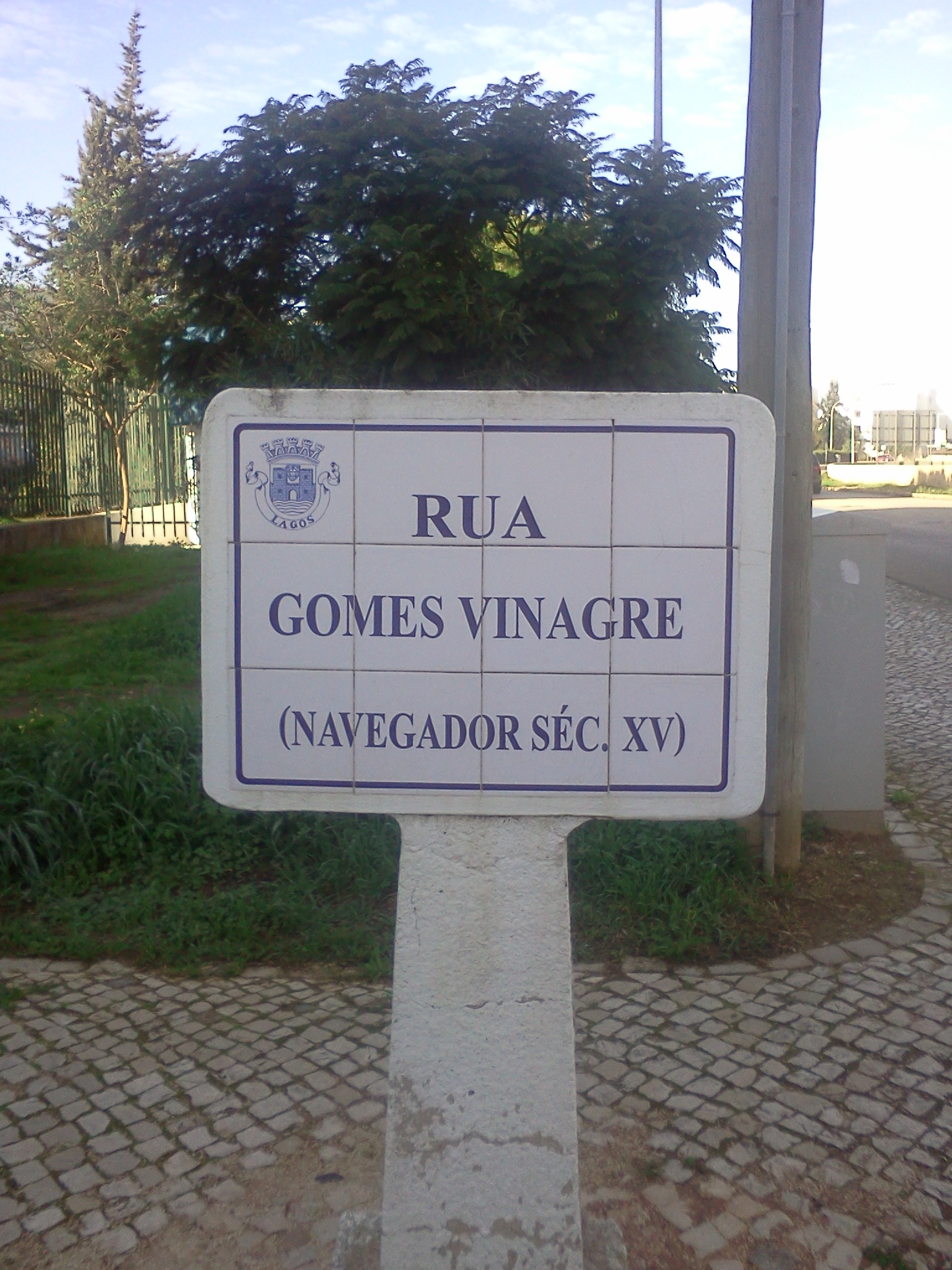 Street sign of Rua Gomes Vinagre, in the city of Lagos, in southern Portugal.